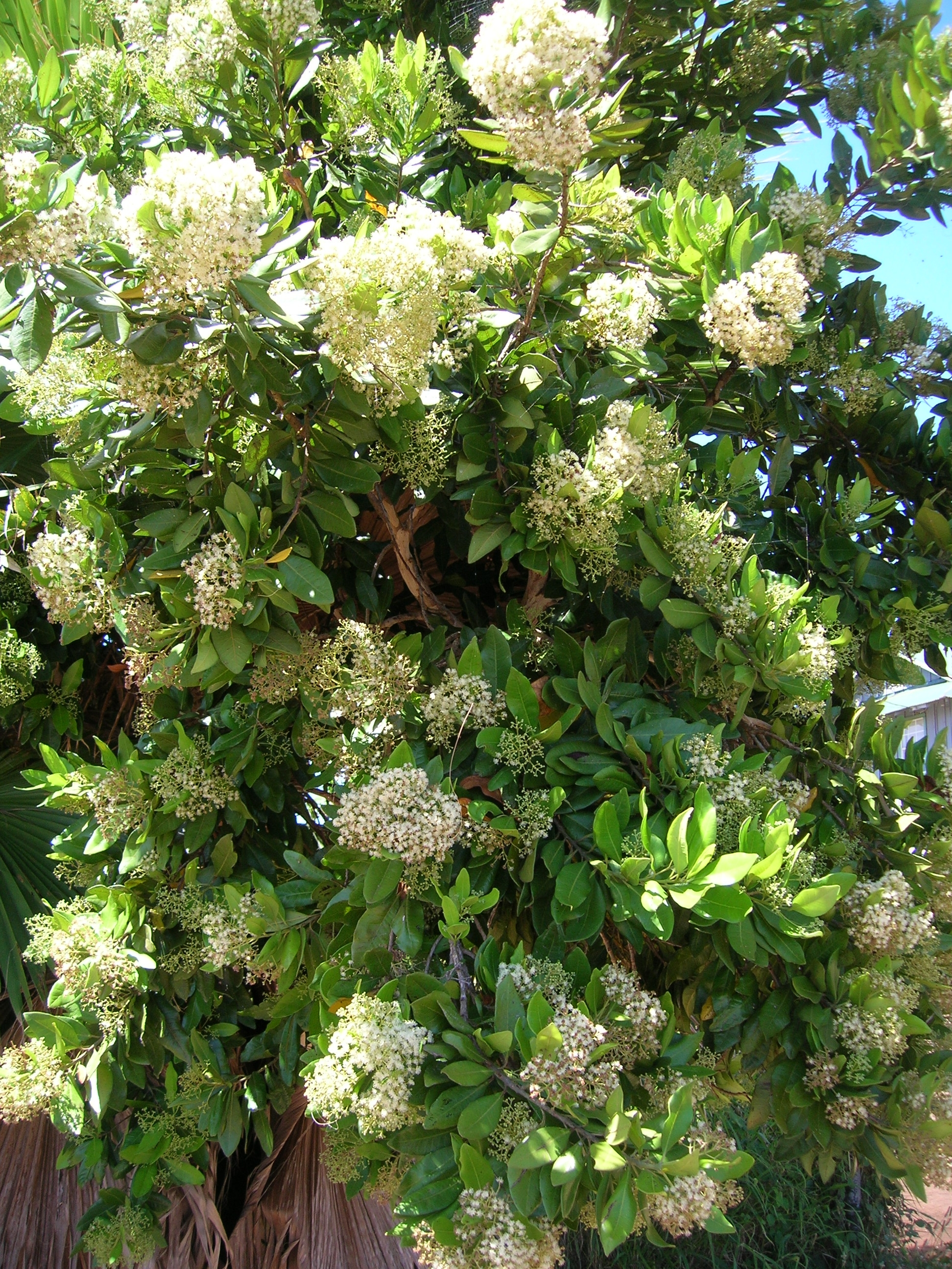 Pimenta dioica (flowering habit). Location: Molokai, Maunaloa